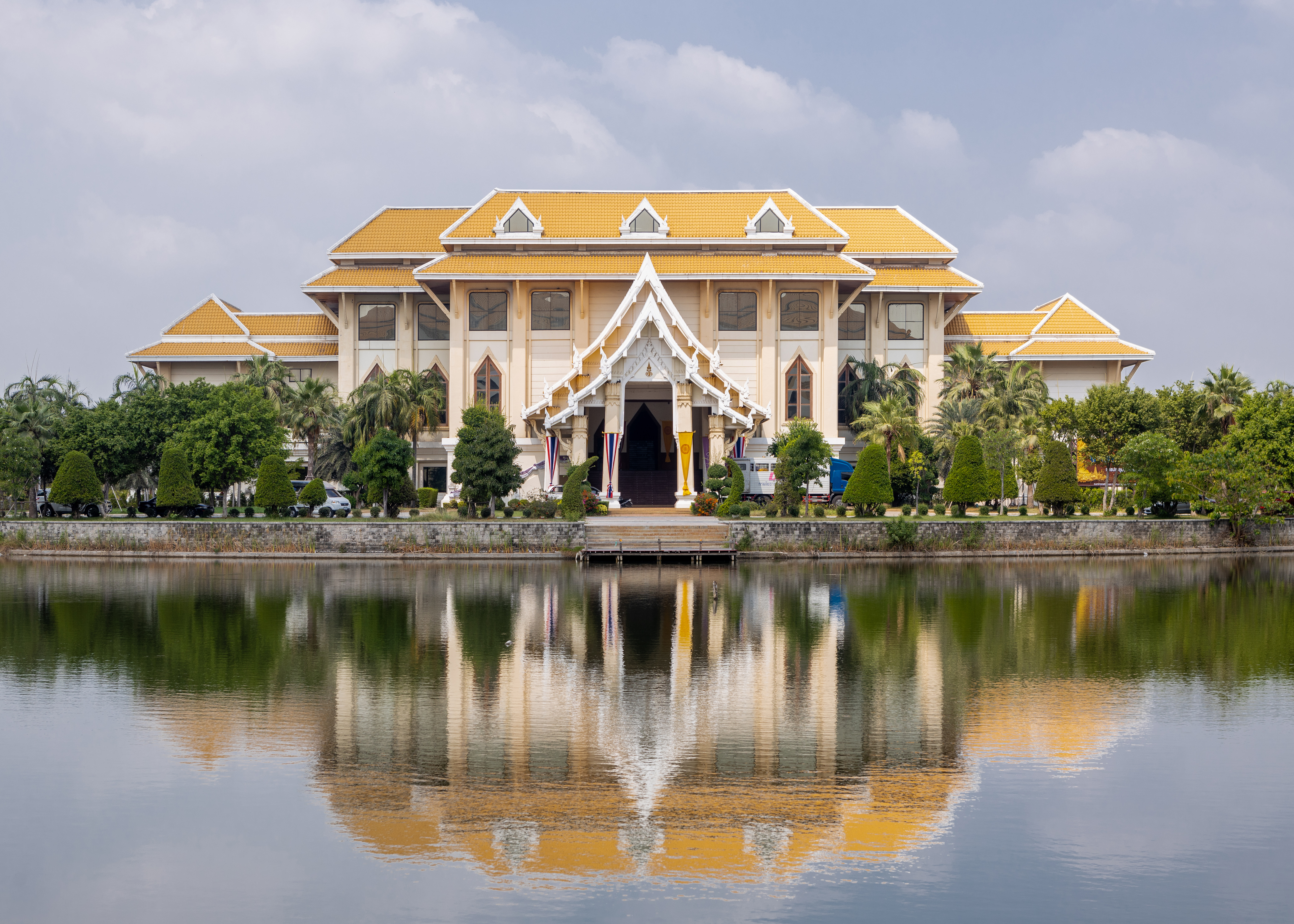 Mahachulalongkornrajavidyalaya University Auditorium, Mahachulalongkornrajavidyalaya University, Ayutthaya.